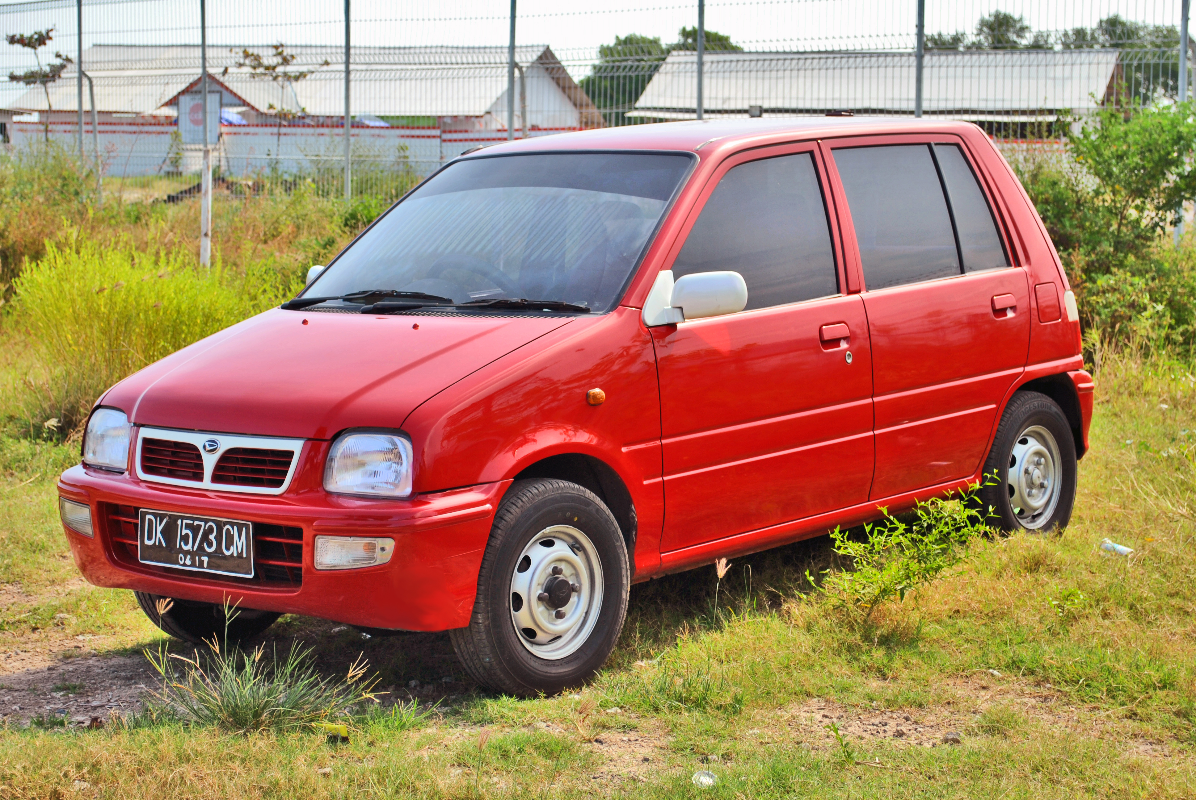 Front view of a Daihatsu Ceria, Indonesian-market Perodua Kancil, photographed just south of Ngurah Rai Airport, Tuban, Bali.